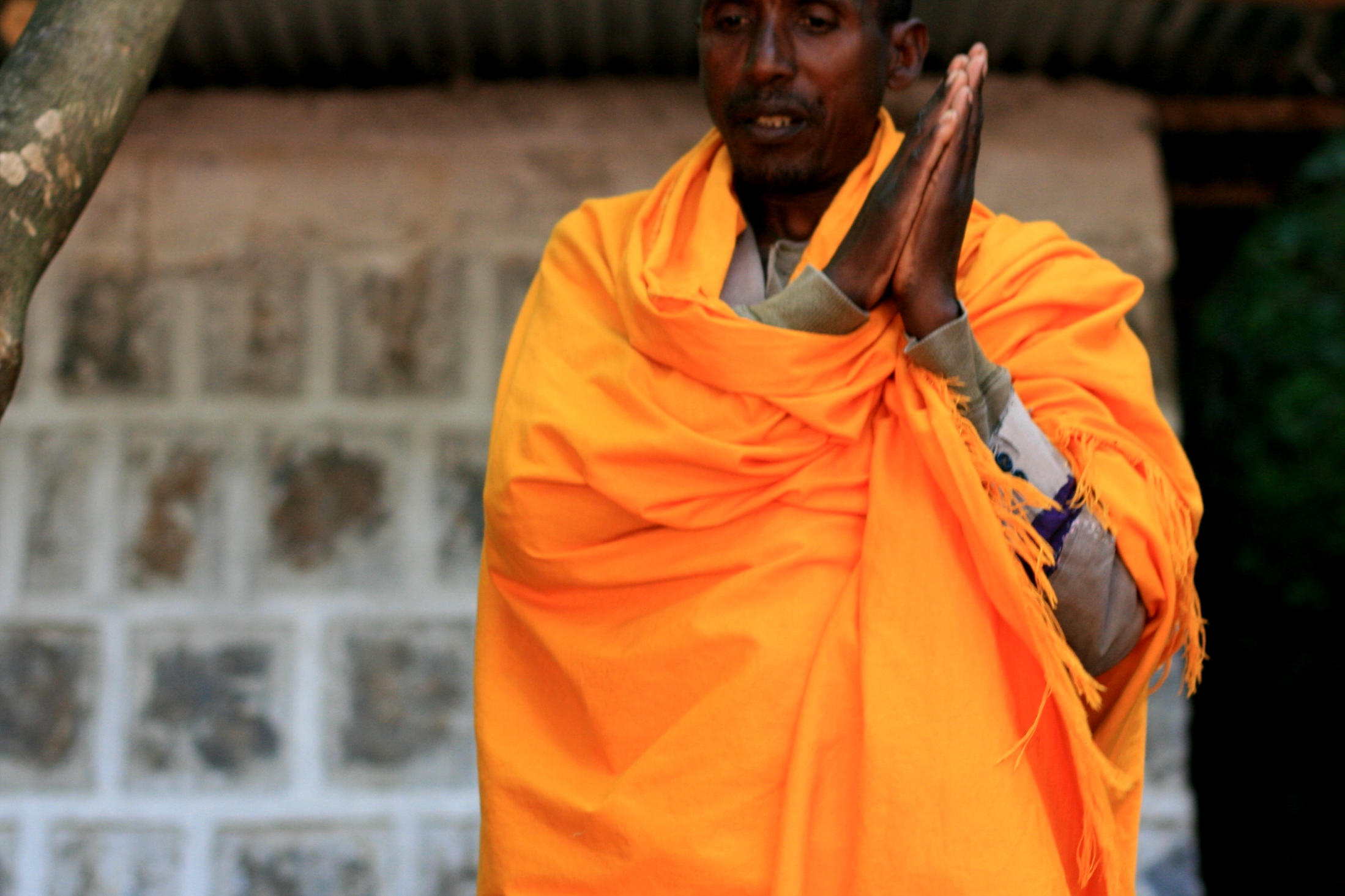 A monk at Entos Eyesus Monastery located in Bahir Dar near Lake Tana in the Amhara Region of Ethiopia.